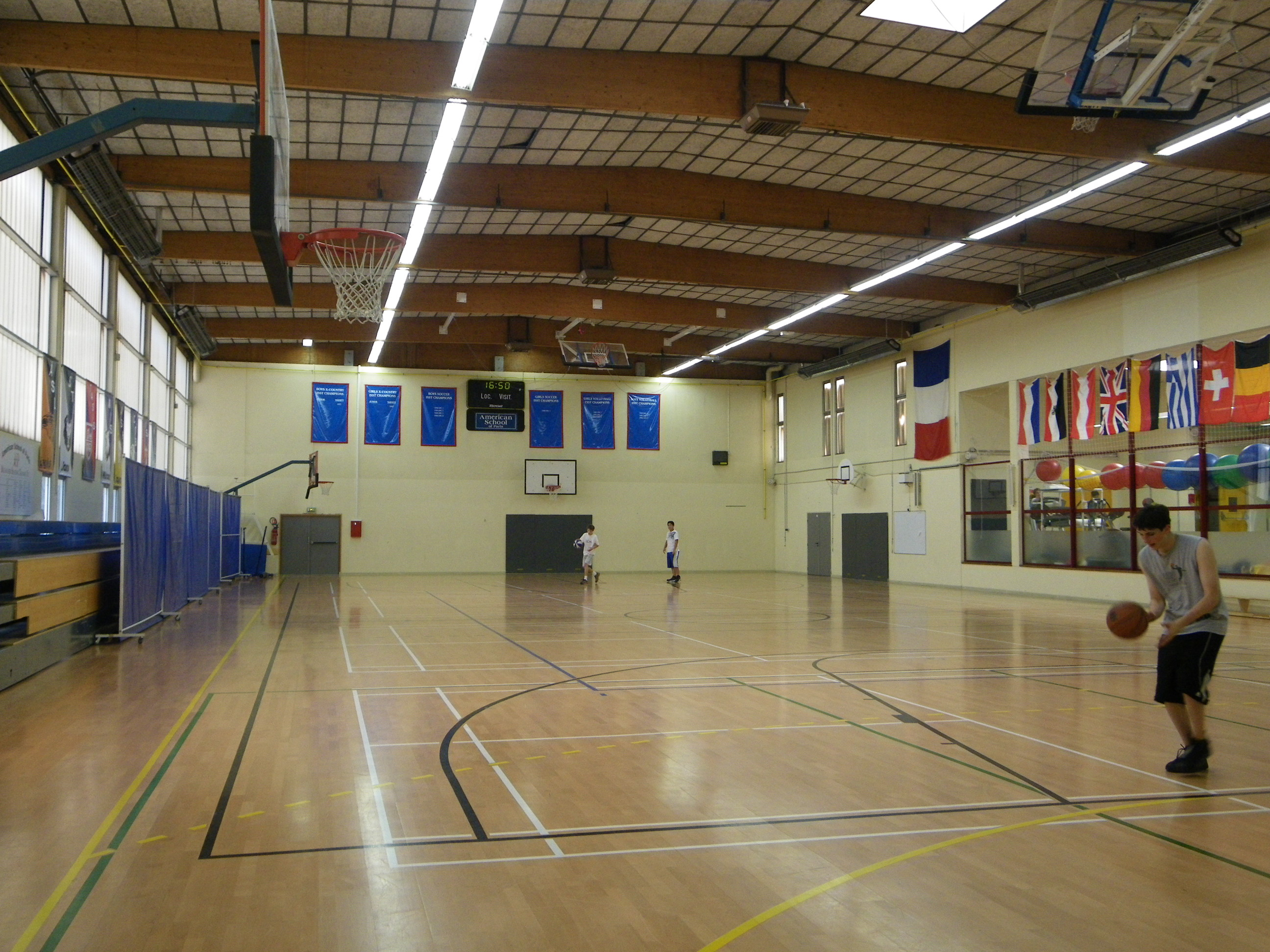 American School of Paris gymnasium